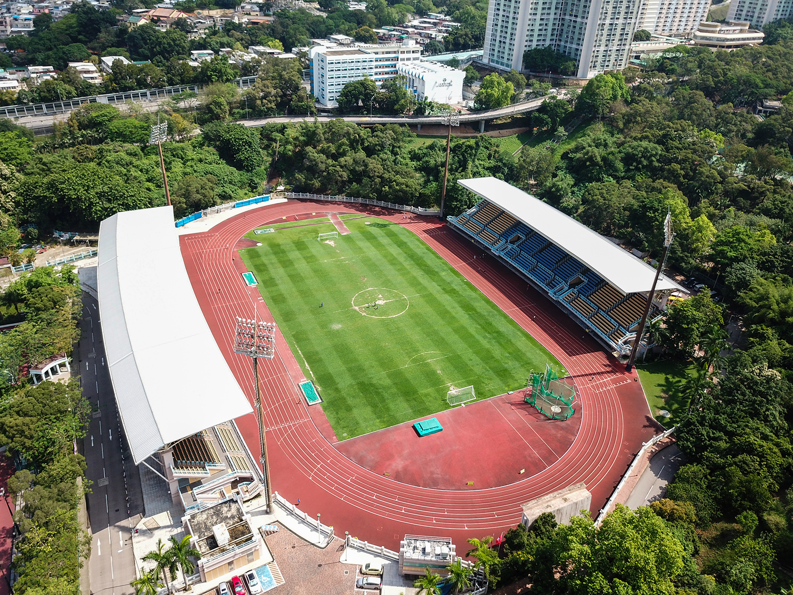 Shing Mun Valley Sports Ground